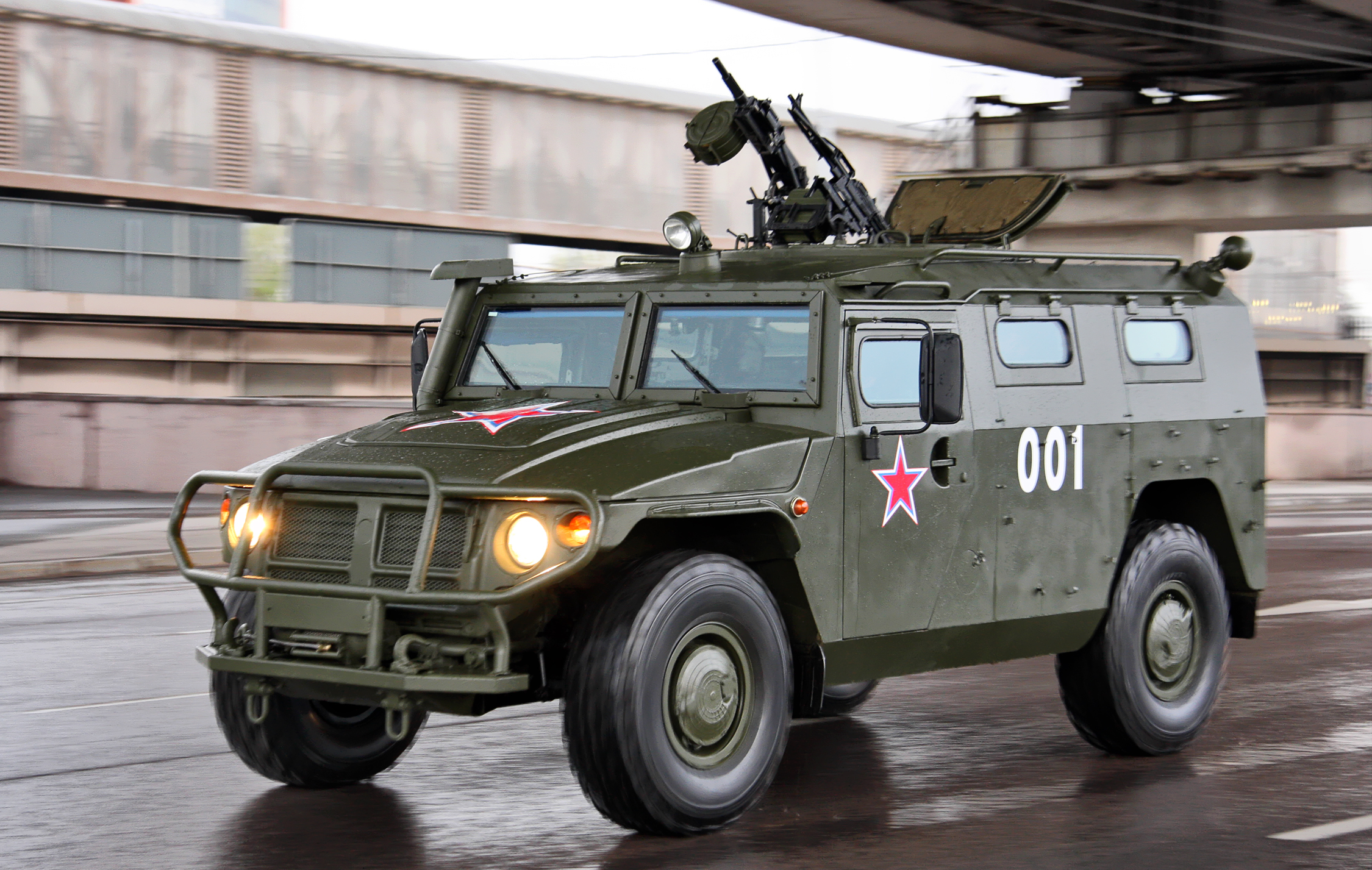 2011 Moscow Victory Day Parade